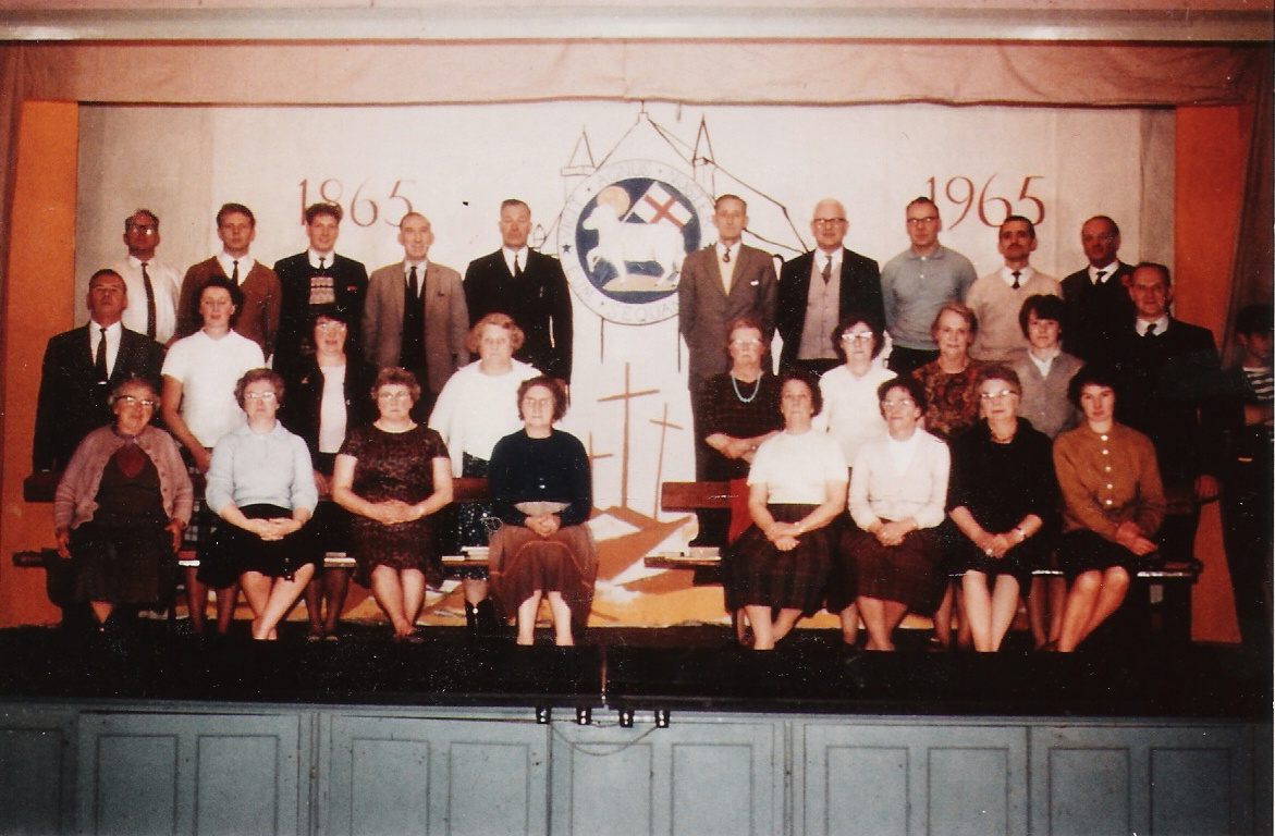 Photograph of members of Westwood Moravian Church, Oldham, then in Lancashire, England, on the stage of the Sunday School Hall for a concert celebrating the 100th anniversary of the founding of the congregation BACK ROW, Left to Right Ken Potts Wright Platt Unknown Jack Cocker Billy Clarke Joe Dunkerley Walter Prestwich Norman Mills Roland Taylor Les Shaw MIDDLE ROW, Left to Right Jimmy Gartside Annie Mills Joan Wood Elizabeth Dunkerley Unknown Annie Saville Unknown Unknown Harold Thorpe FRONT ROW, Left to Right Known as Auntie Flo Unknown Ethel Gartside Unknown Freda Newton Hilda Linyard Unknown Marjorie Taylor